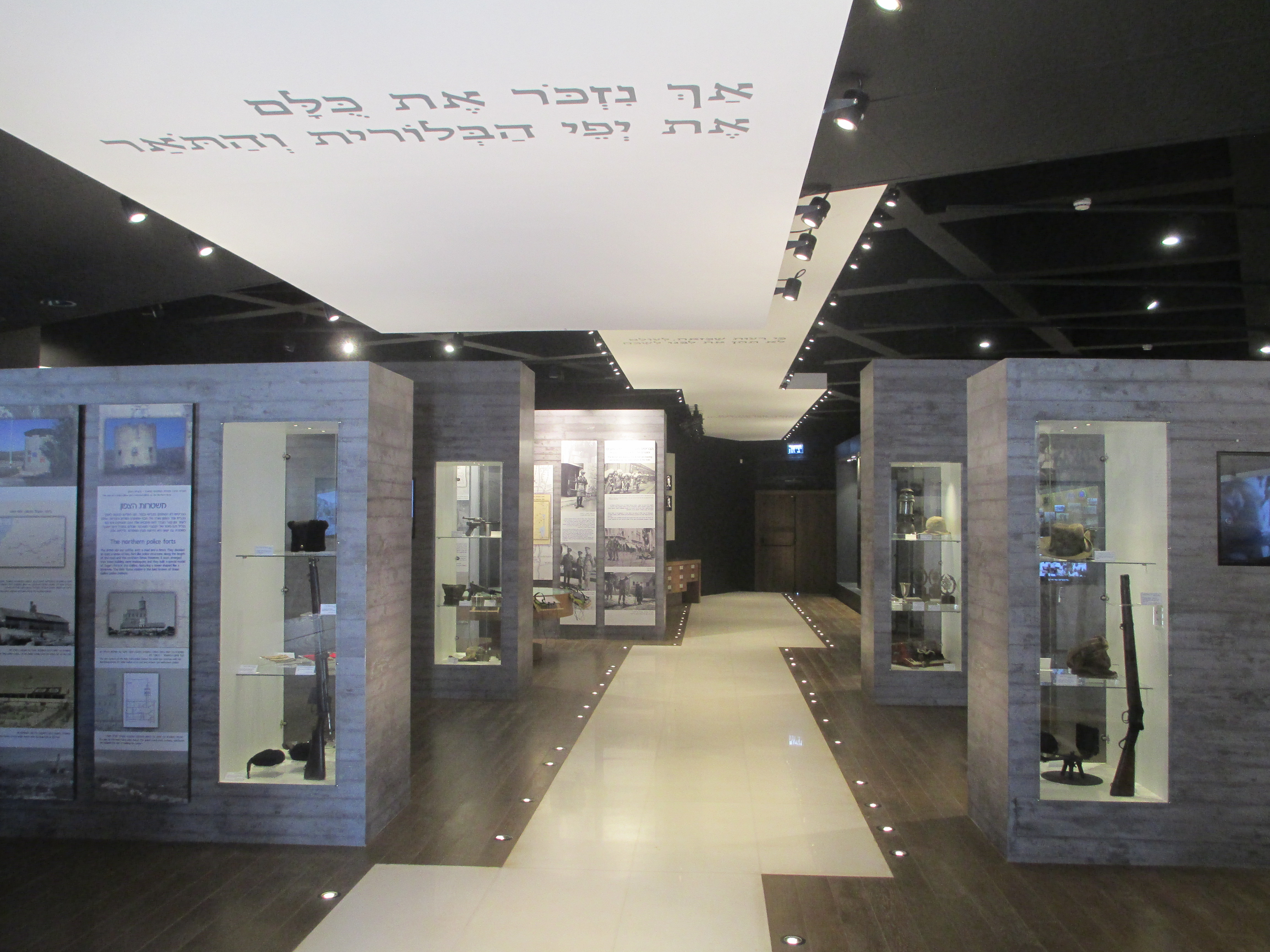 Hareut (friendship) museum